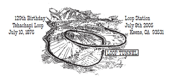 Pictorial Cancellation stamp celebrating the 129th anniversary of the Tehachapi Loop (railroad engineering feat).